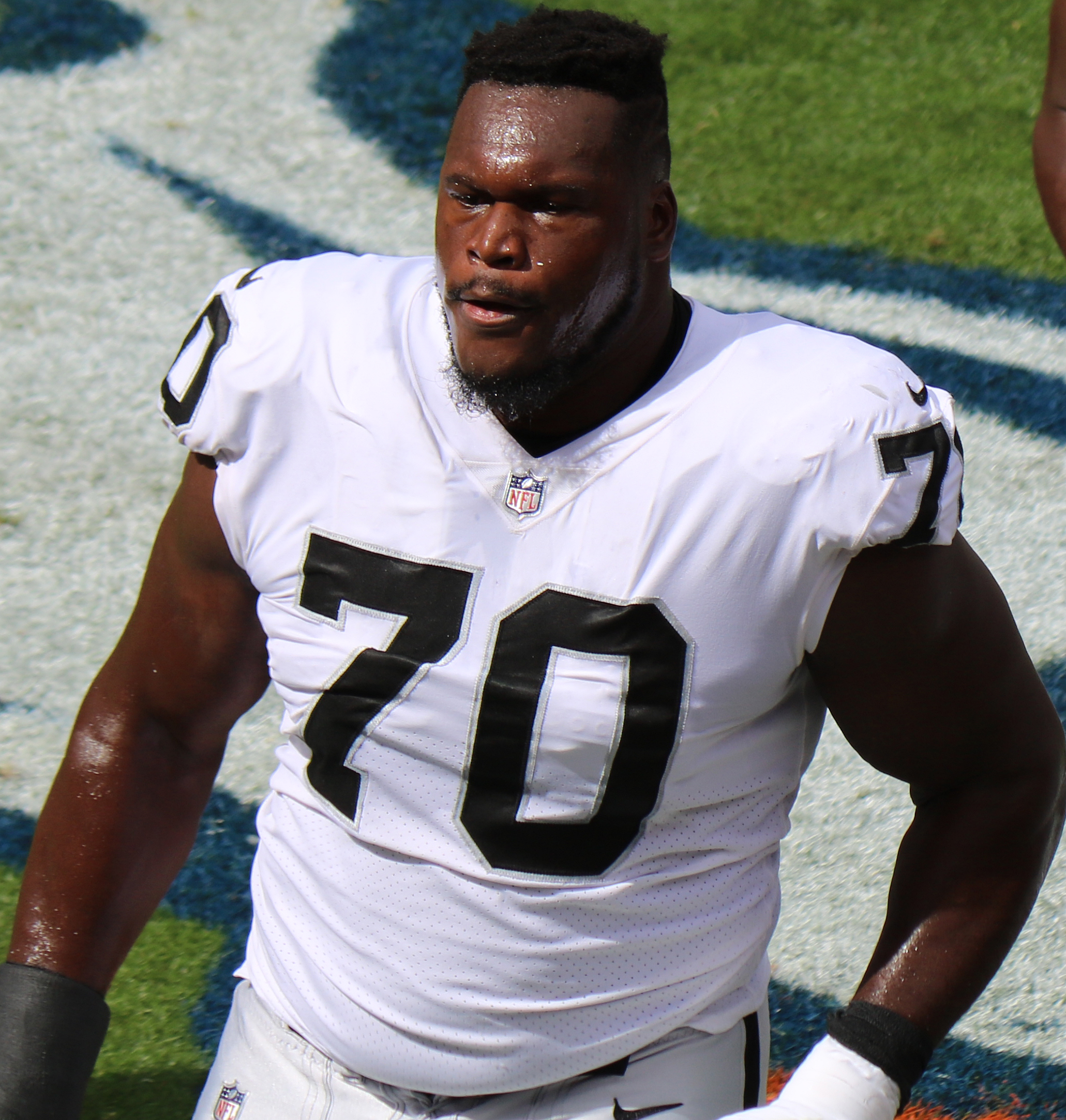 Kelechi Osemele, a player on the National Football League.